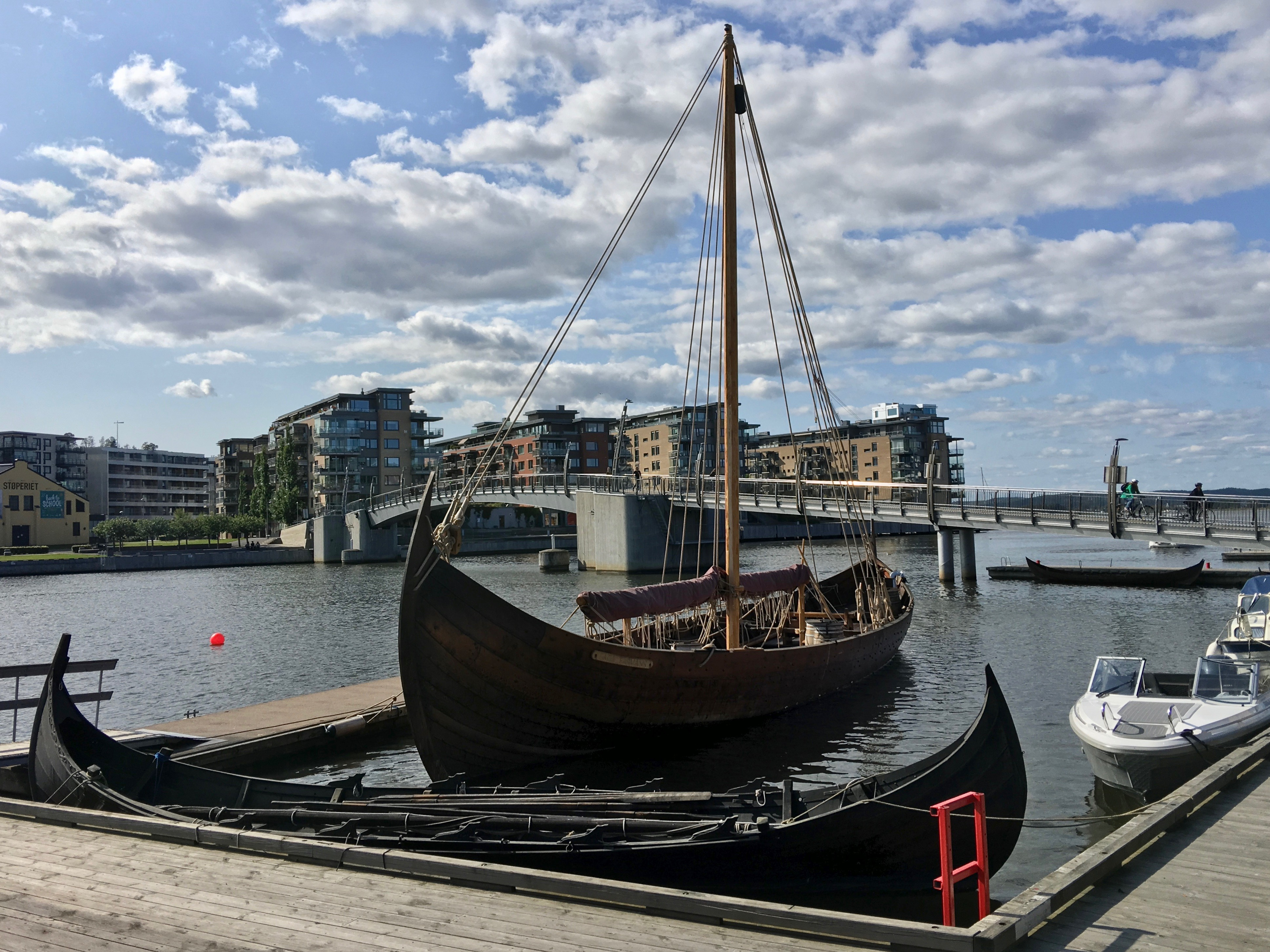 Saga Farmann, 2018 built replica of the Norwegian Klåstadskipet viking ship from ca 1000, moored to the pier in the harbour of Tønsberg, Norway (Tønsberg havn/Tønsberg Brygge/Gjestebrygga/Brygga). Photo taken on August 21, 2019 showing the vessel with a smaller viking era row boat in the foreground by the boardwalk at the dock. In the background is seen the Kaldnes bro, a footbridge (gangbru) across the Byfjorden, going from the town center to the Kaldnes Brygge apartements area.